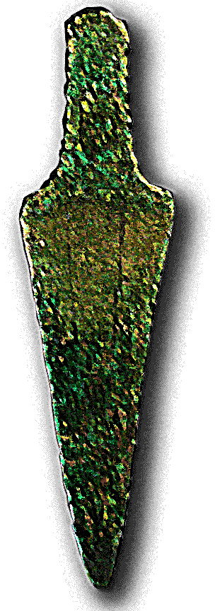 Prehistoric dagger of Copper Age. Part of a funerary equipment from a Bellbeaker culture burial in San Román de Hornija (Valladolid, Spain) in the Archaeological Museum of Valladolid, dated in 1800 BCE